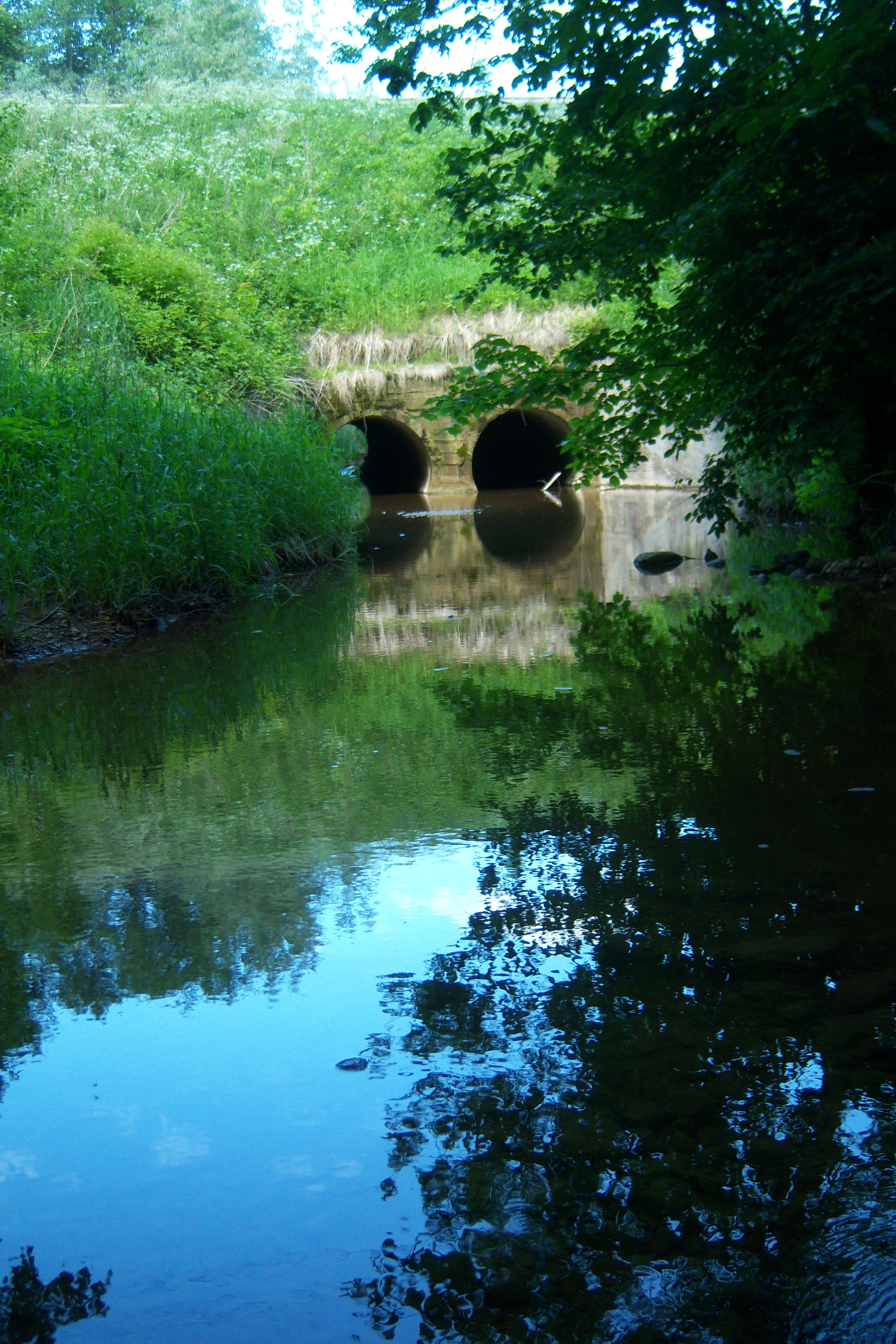 Vejuona River near Pavejuonis and Nevėžis River, Kaunas district. Lithuania